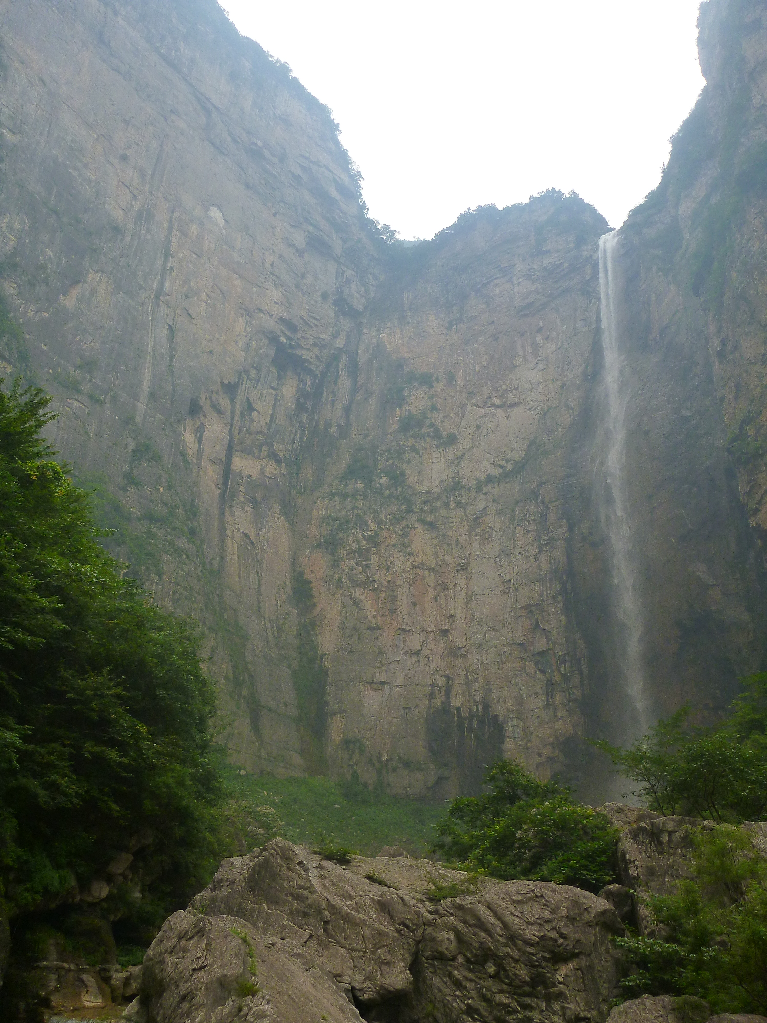 Yuntai Waterfall is claimed to be 314m high